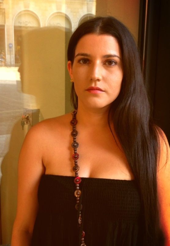 The author Shani Boianjiu.